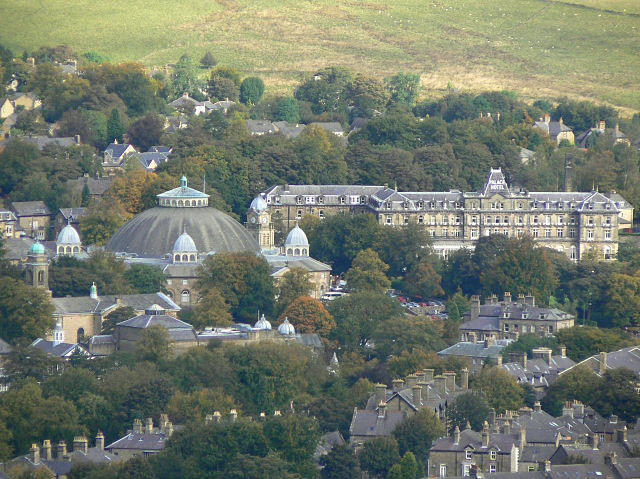 The Dome and the Palace Hotel, Buxton. Seen from the top of Grin Low. When built, the Dome had the largest unsupported span of any dome in the world, surpassing even that of St.Peter's in Rome.